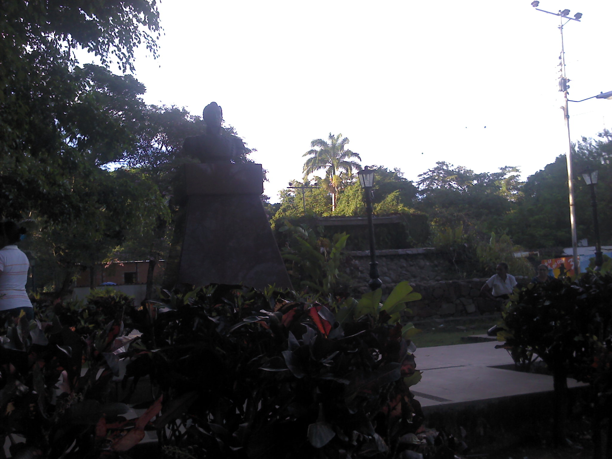 Bolívar Square, Cabure, Falcón State, Venezuela.